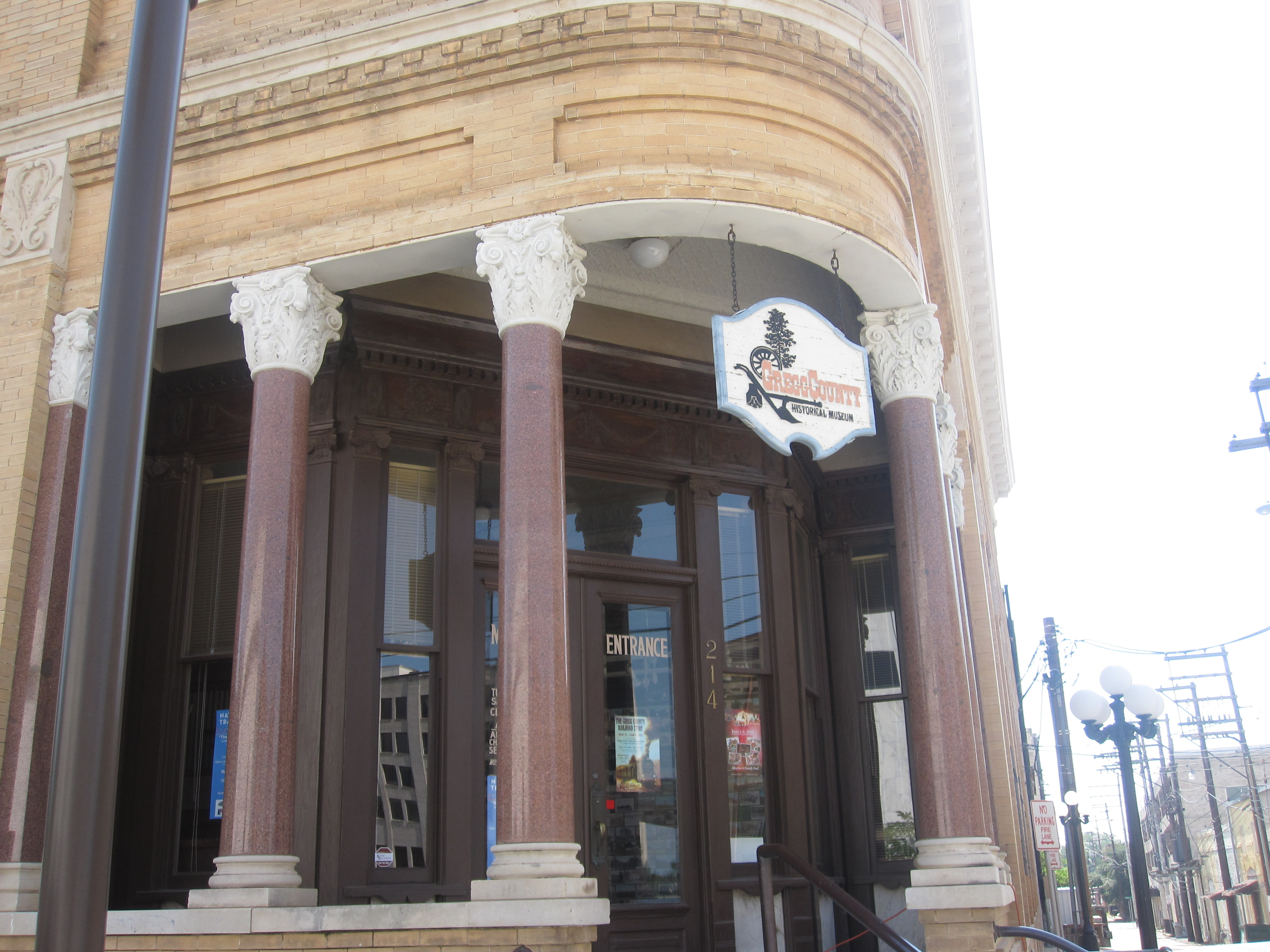 I took photo in Longview, TX, with Canon camera.